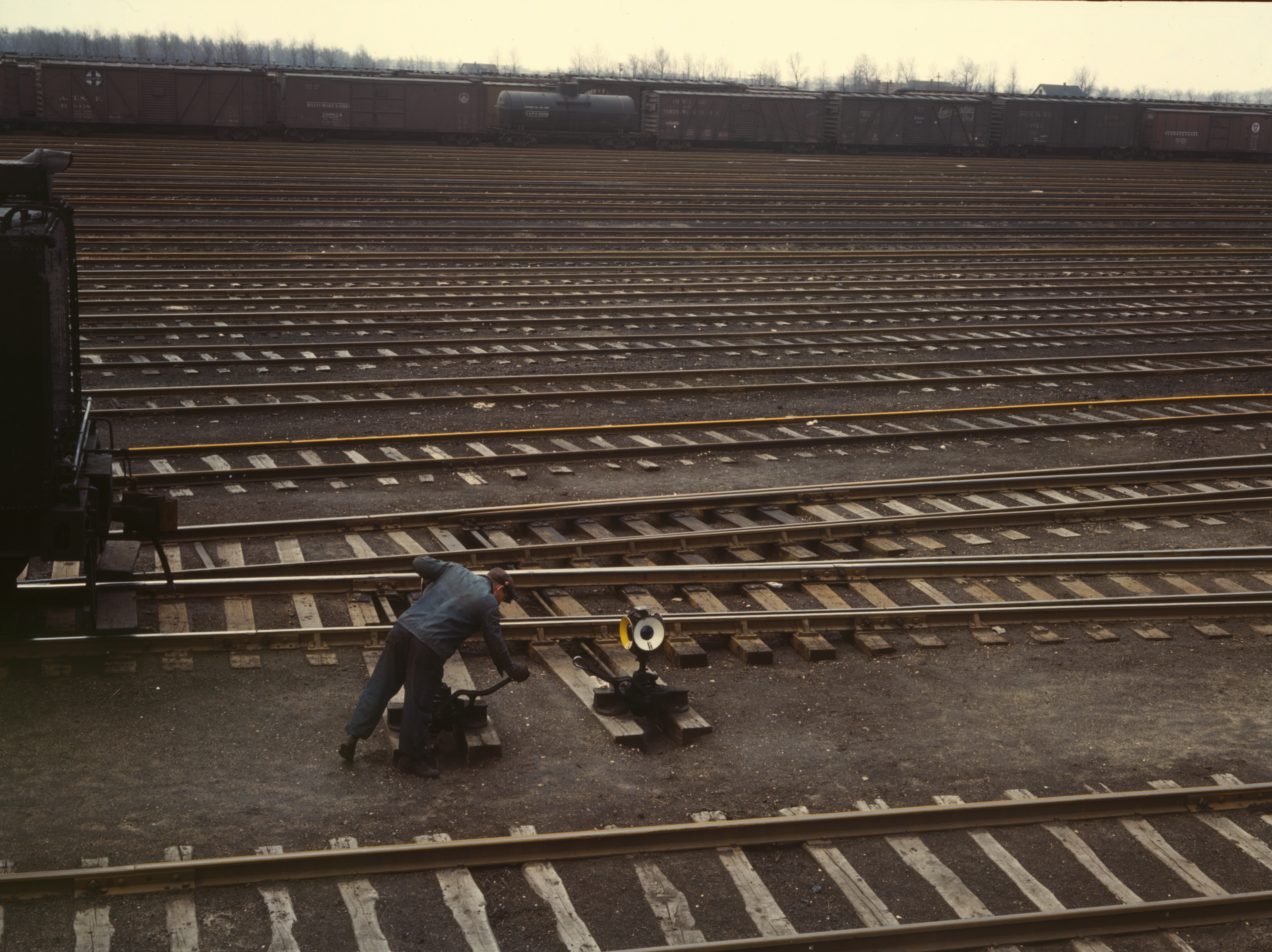 Switchman throwing a switch at Chicago and Northwest Railway Company's Proviso yard, Chicago, Illinois.